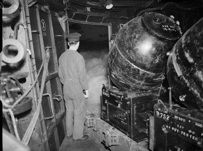 British minelayer HMS Apollo about to start laying mines off Norway. See also : file:HMS Apollo minelaying WWII IWM A 27055.jpg file:HMS Apollo minelaying WWII IWM A 27057.jpg